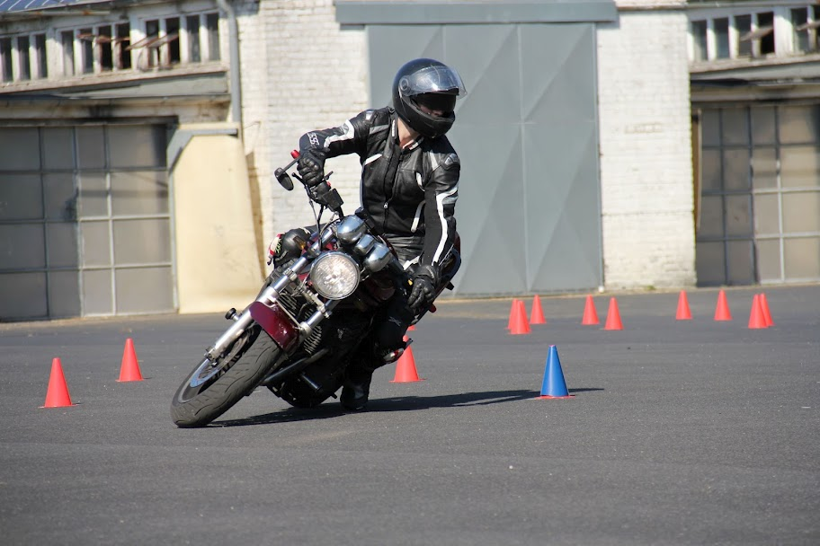 Picture of Luuk during the first moto-gymkhana NL meeting in Krefeld, September 2012